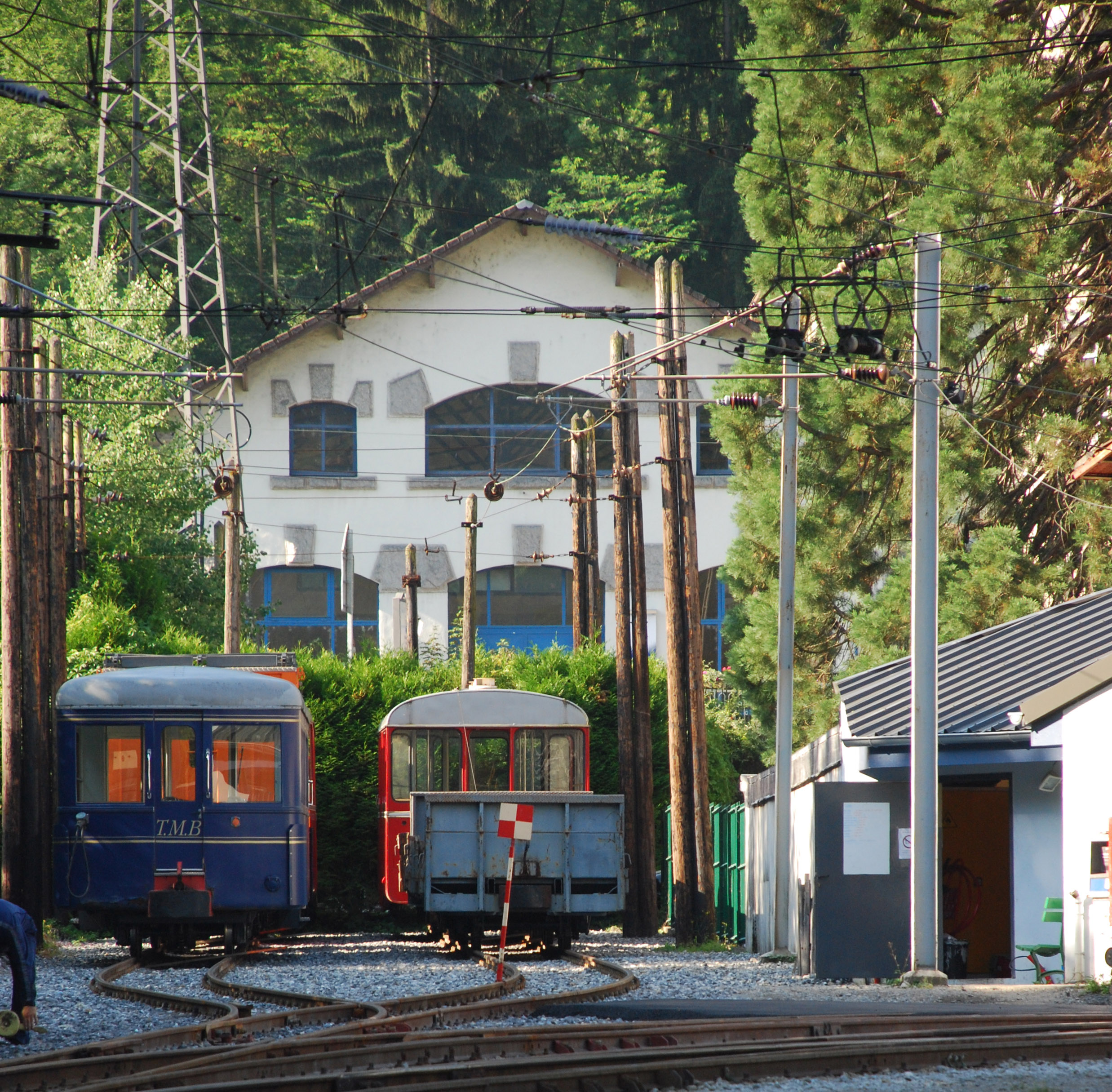 TMB: service tracks at Le Fayet.